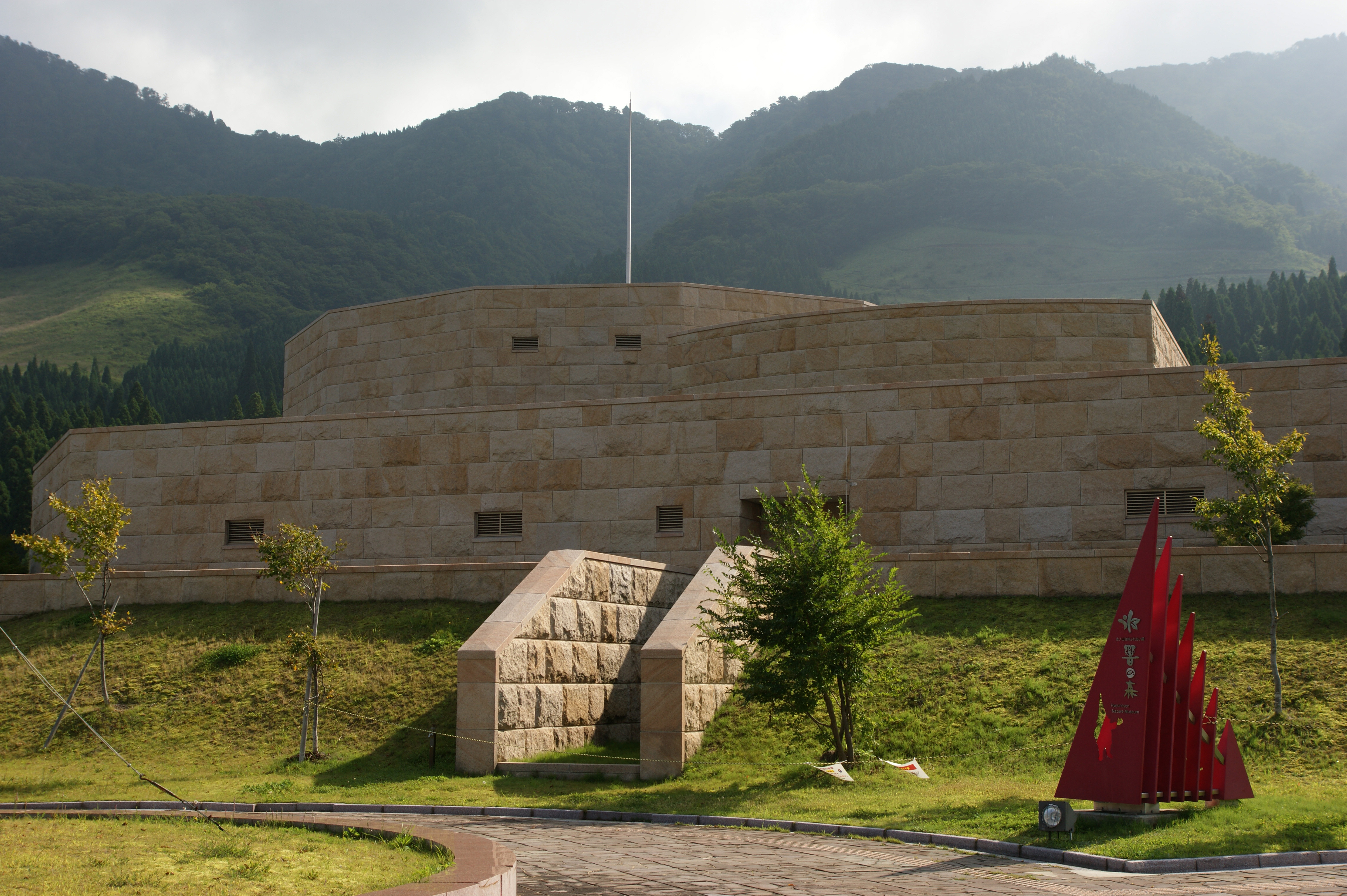 Hyonosen Nature Museum, Hibikinomori in Wakasa, Tottori prefecture, Japan